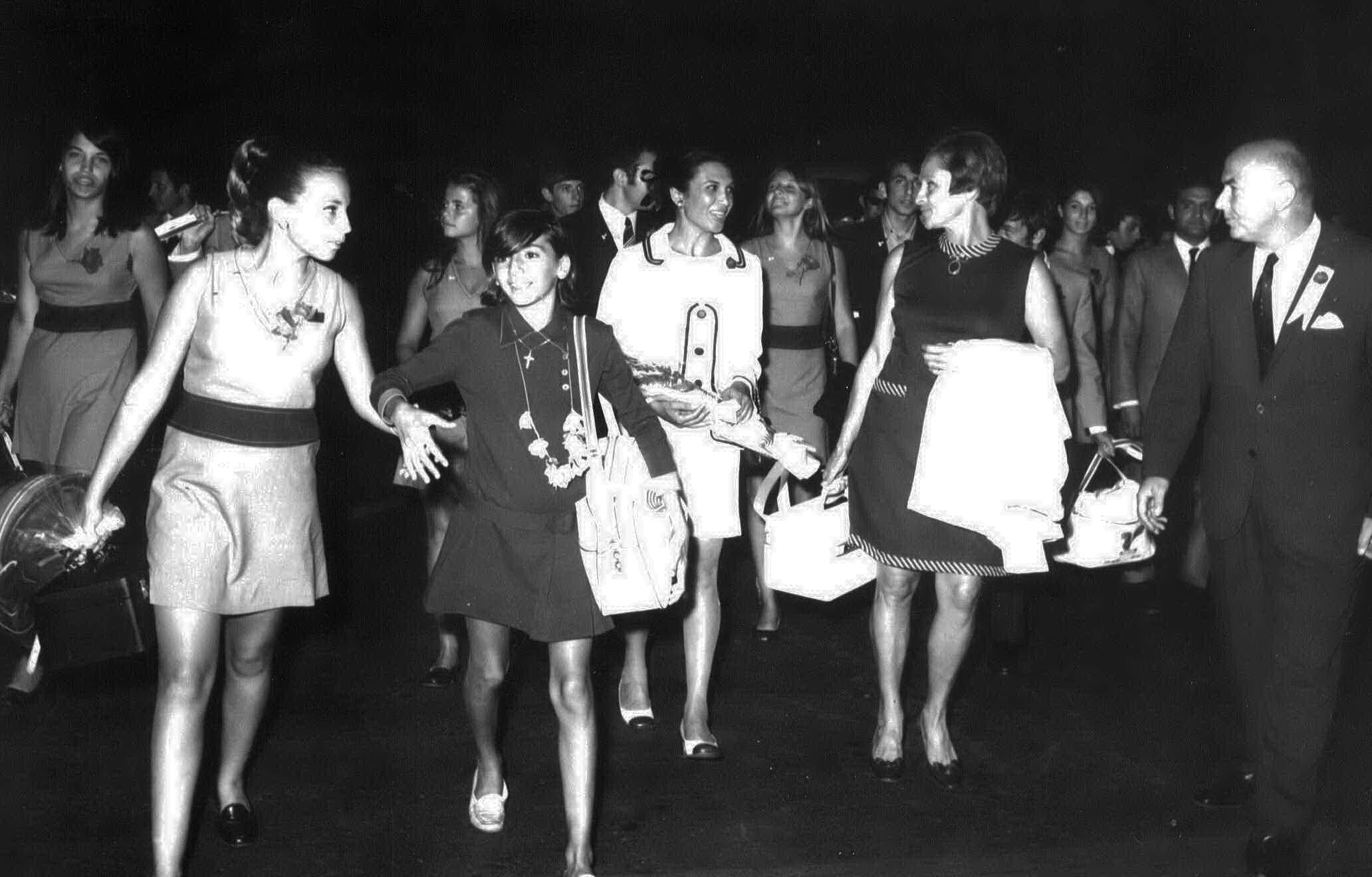 Lebanese athletes in Iran